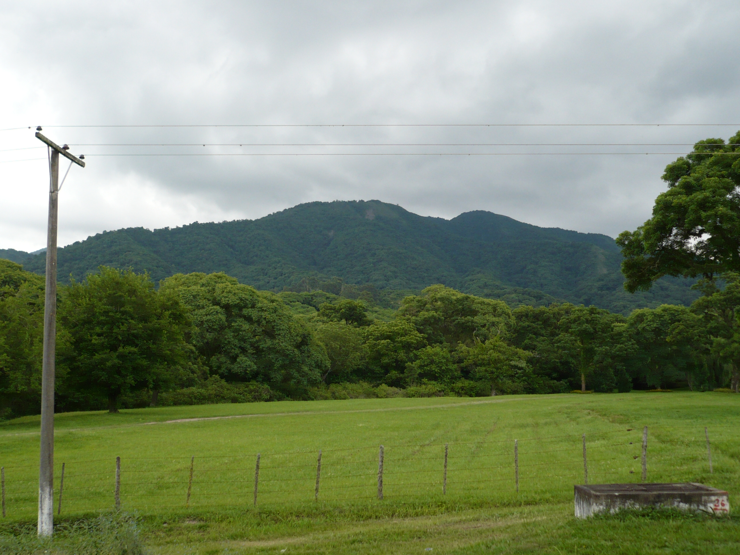 A mountain, on the road between San Lorenzo and Salta. Argentina